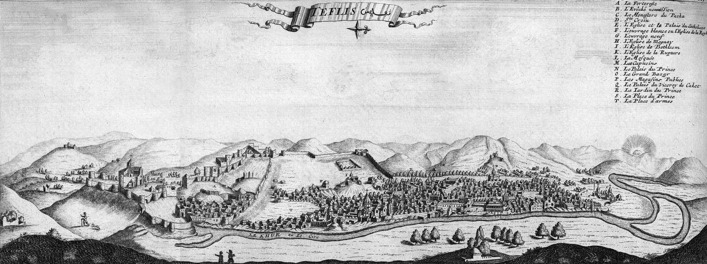 Historical Tblisi